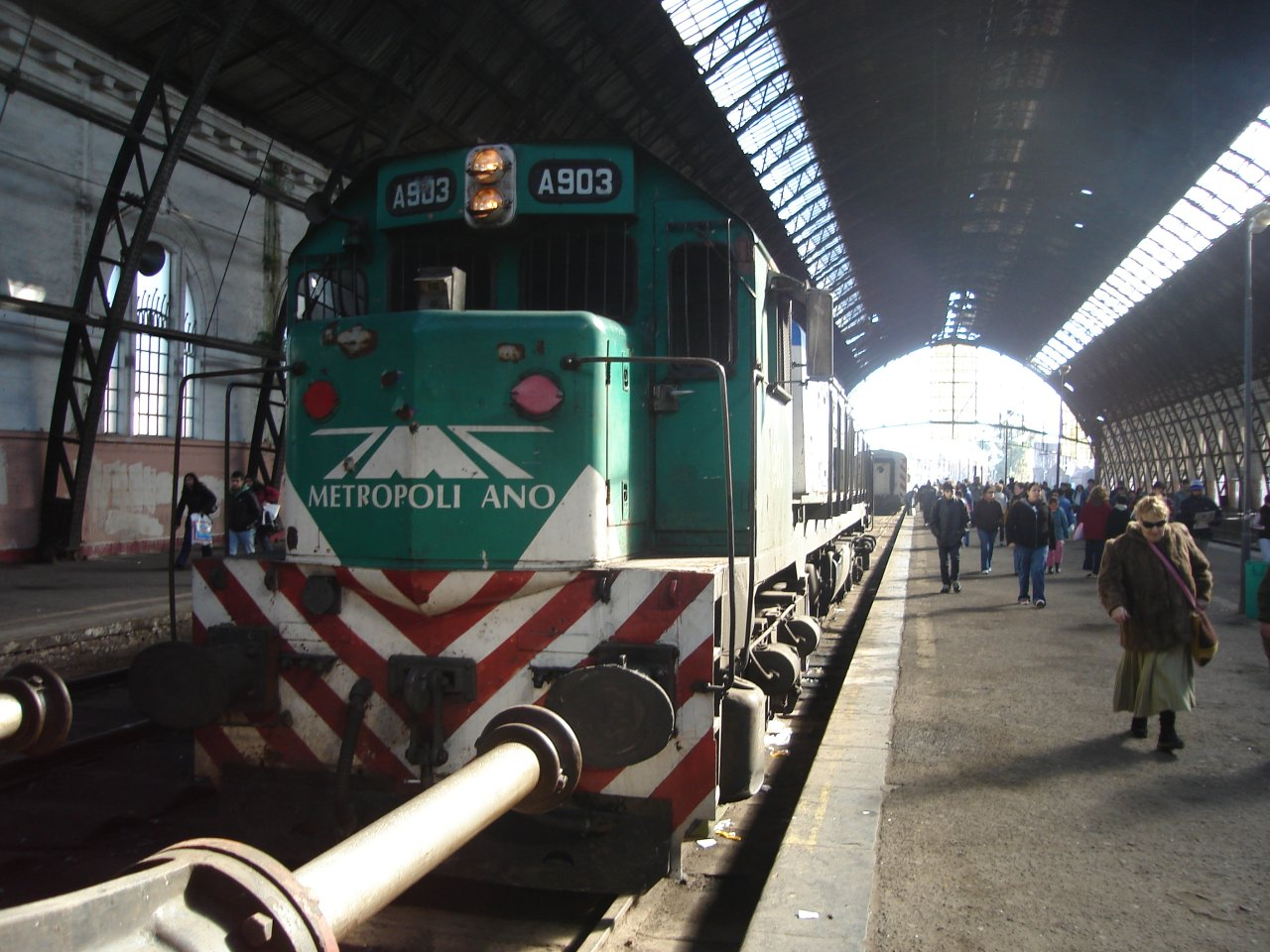 EMD GT22CW locomotive (A903) of the Roca Line. Photo taken in La Plata Railway Station, Buenos Aires Province, Argentina.